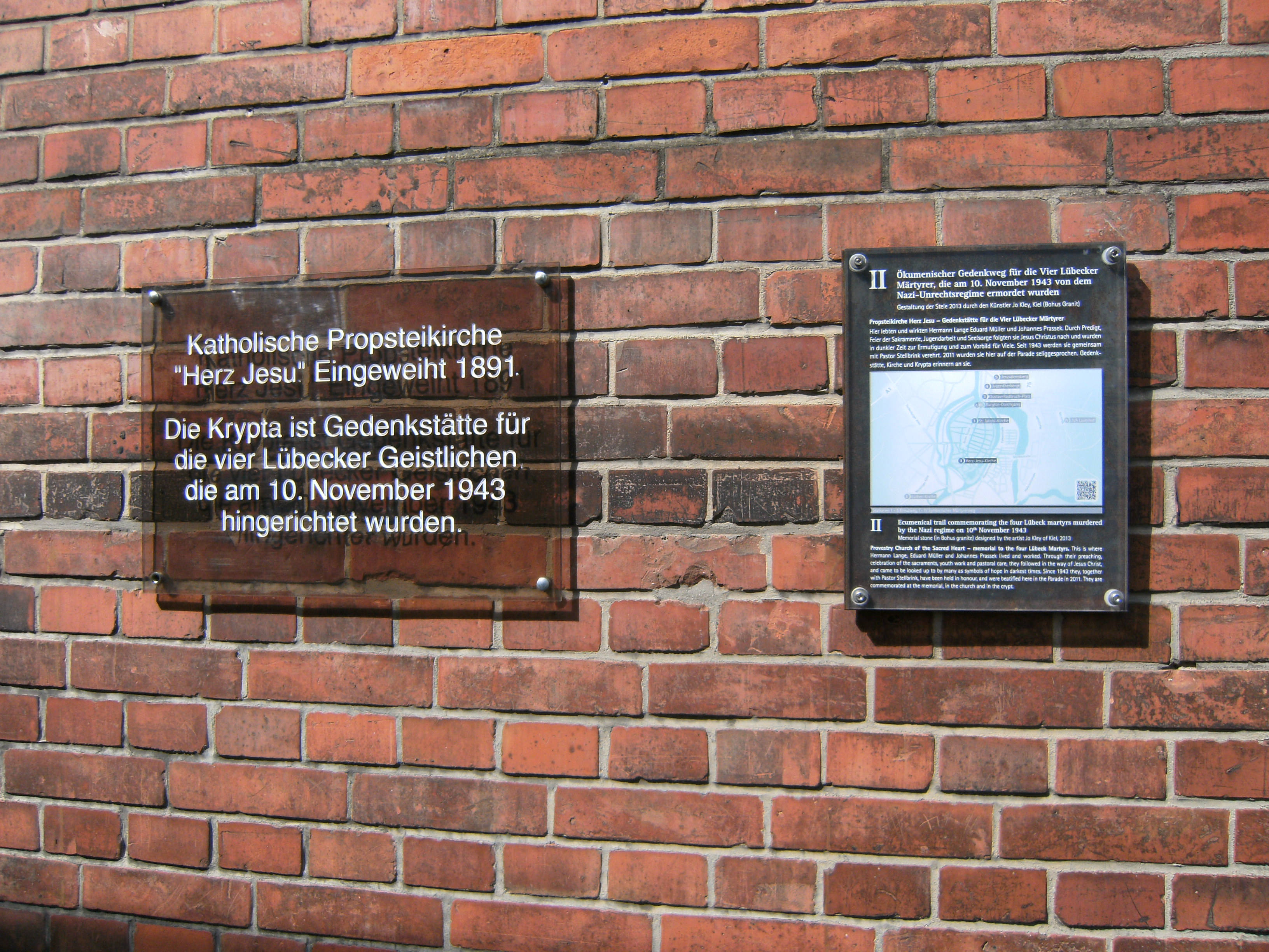 A Plaque at the catholic church "Herz Jesu" in Lübeck, Parade (street), remembers the fate of the Lübeck martyrs. The Lübeck martyrs were guillotined on November 13, 1943.